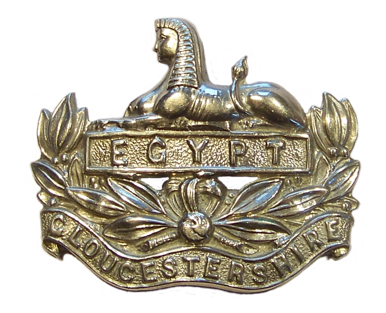 Insignia worn by Cpl Davey whilst serving with the 1st Bn The Gloucestershire Regiment in Aden (1956) and in Cyprus (1957)